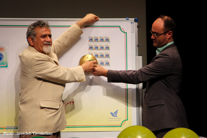 Seyyed Hasan Amin at the 3rd conference of left-handers in Tehran, Iran.